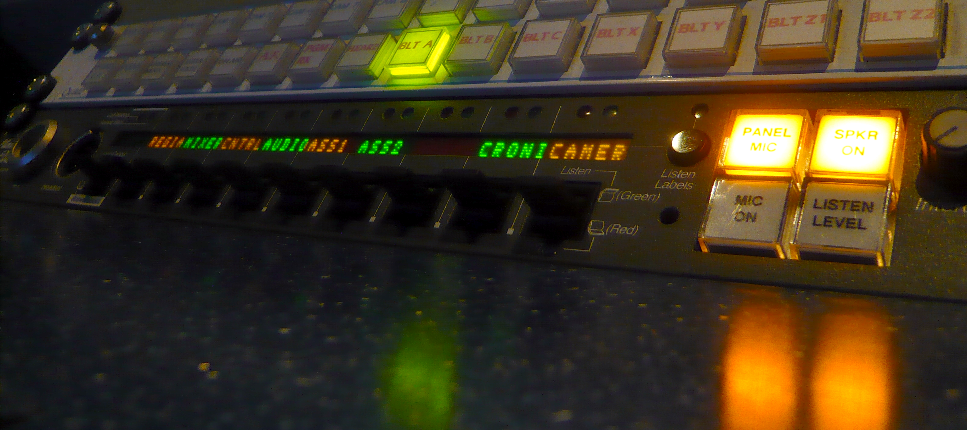 A ClearCom Digital Matrix intercom panel.